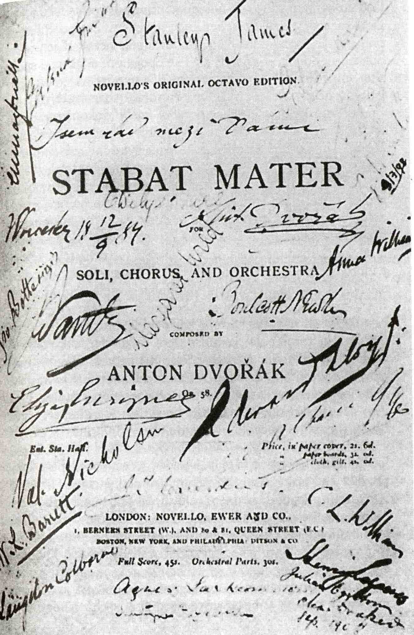 The title page of the score of Stabat Mater. The remembrance of the performance in Worcester on 12 September, 1884.